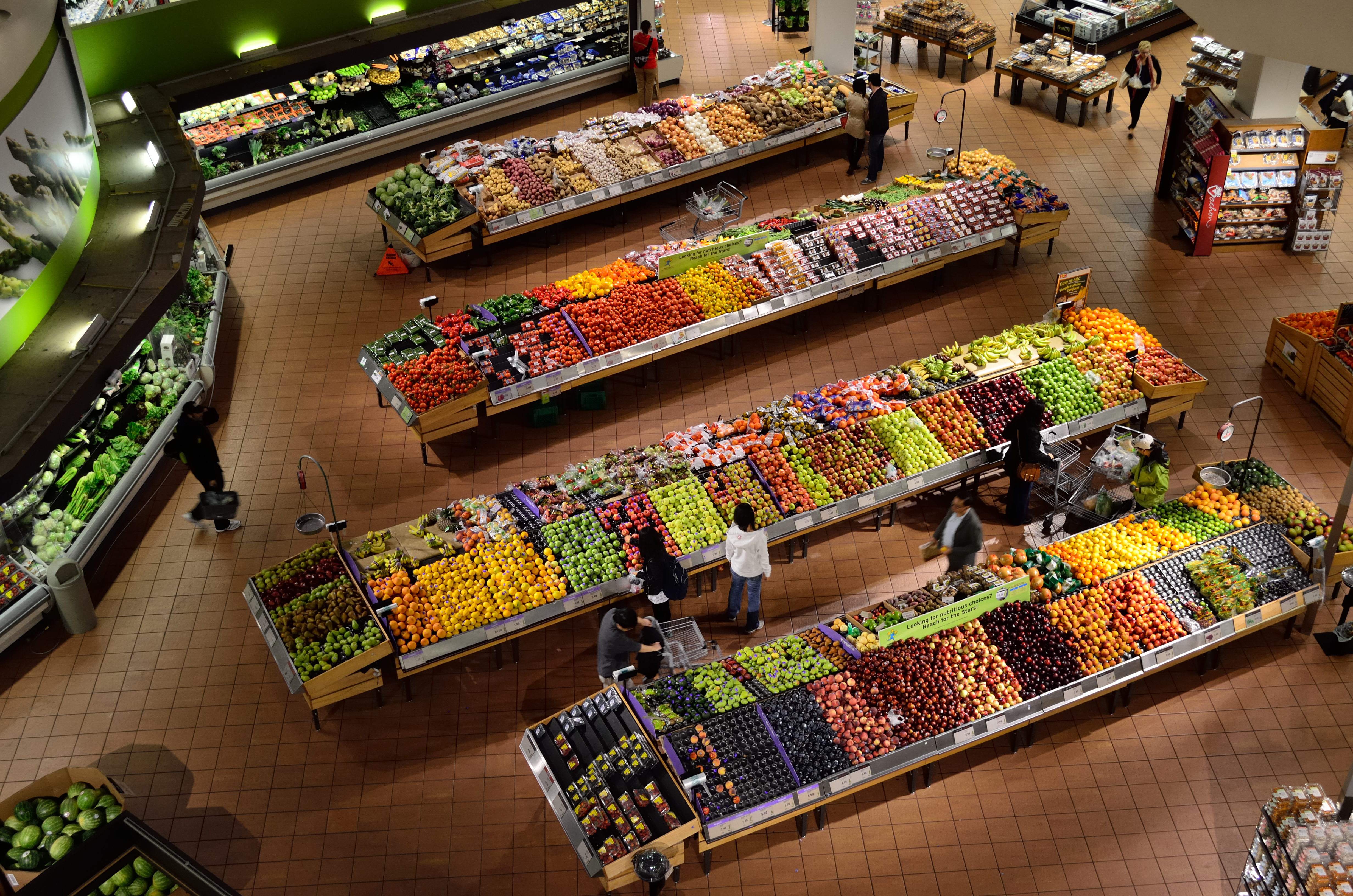 Loblaws - Yonge Street (Empress Walk)